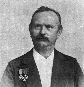 Photograph of Laurent Menager (1835-1902), Luxembourg composer.